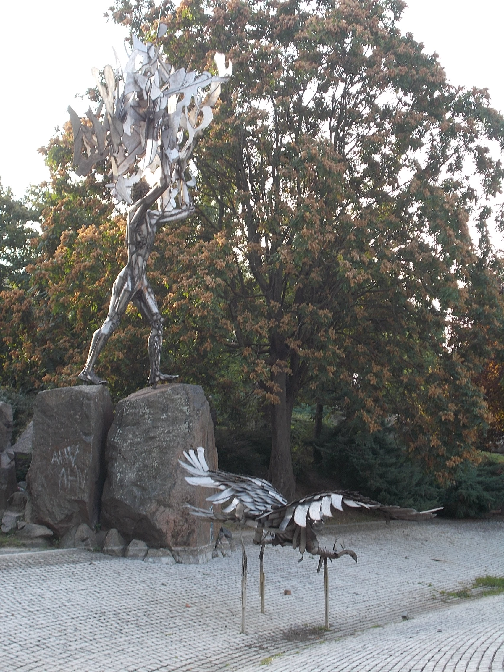 Prometheus sculpture by Imre Varga. - Prometheusz Park, Szekszárd, Tolna County, Hungary.